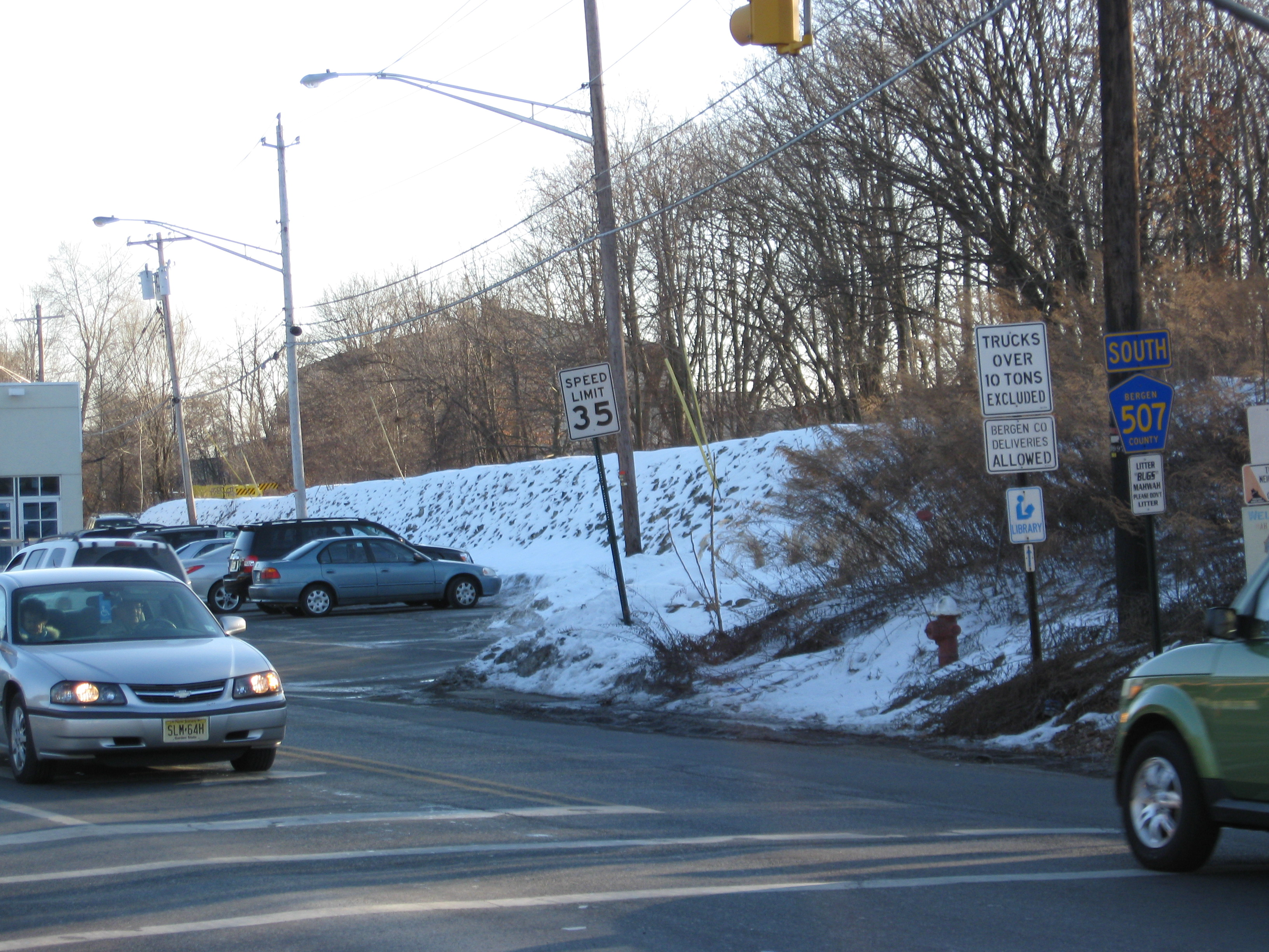 CR 507's first southbound reassurance shield after its intersection with US 202 just mere feet south of the NY/NJ state line